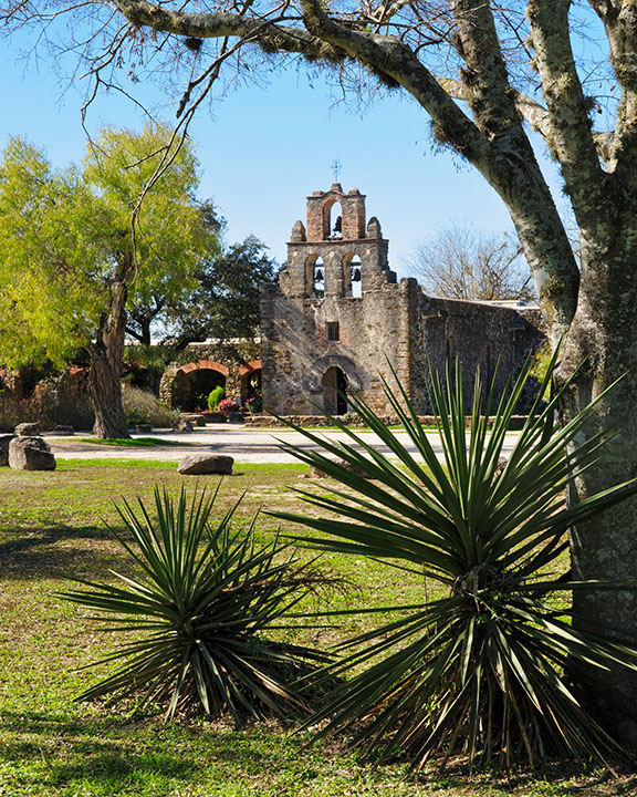 A pair of yucca plants in front of Mission Espada in San Antonio